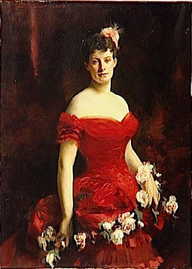 The Viscountess of Poilloue of Saint-Perier (1850-1897) John Singer Sargent -- American painter 1883 Musée d'Orsay, Paris Oil on canvas 131 x 94 cm Signed and dated (upper left): John S. Sargent 1883 Jpg: Joconde Database